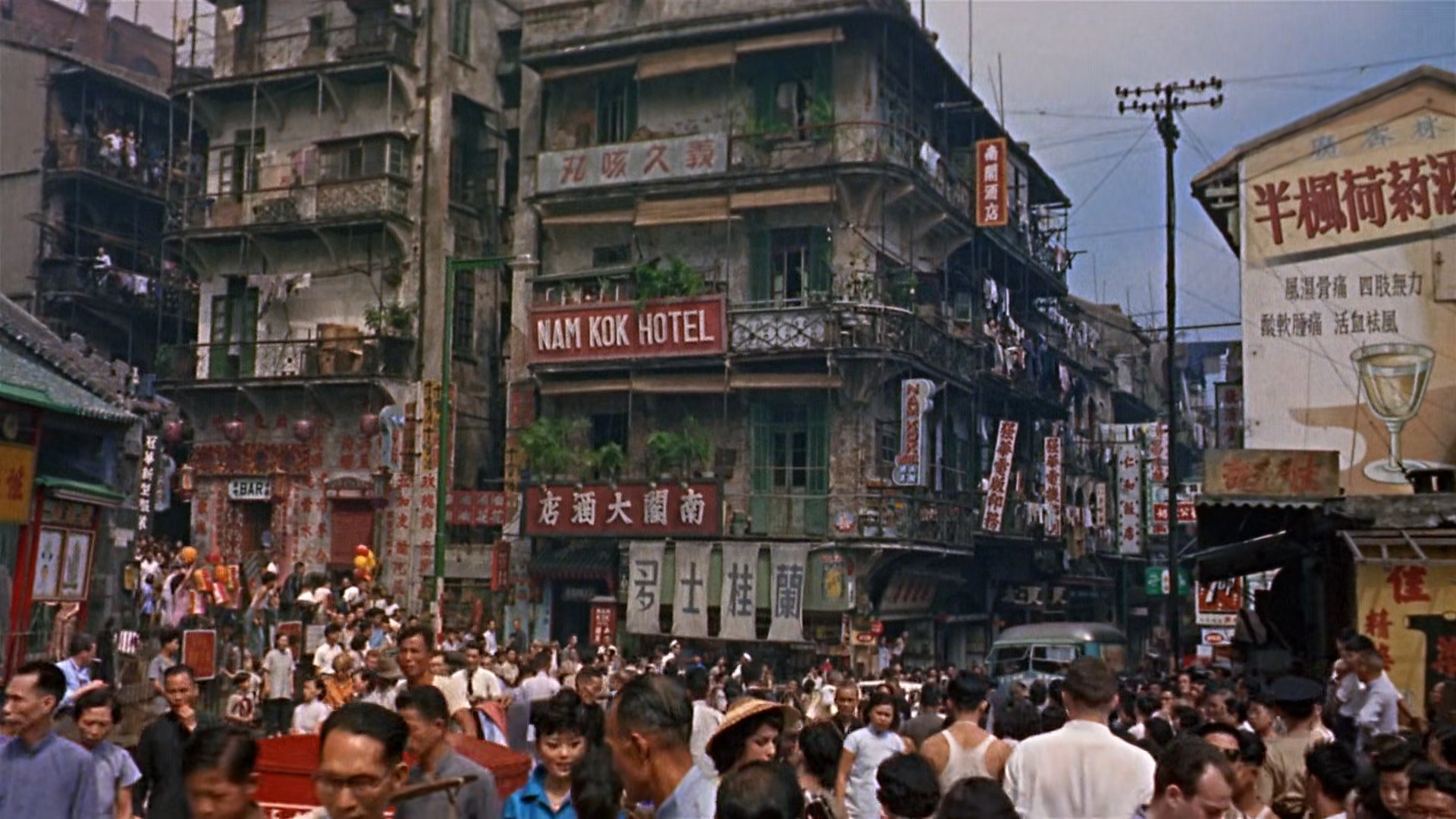 Screenshot of The World of Suzie Wong trailer (1960) showing the fictional[1] Nam Kok Hotel at the corner of Hollywood Rd. and Ladder St. in Hong Kong.